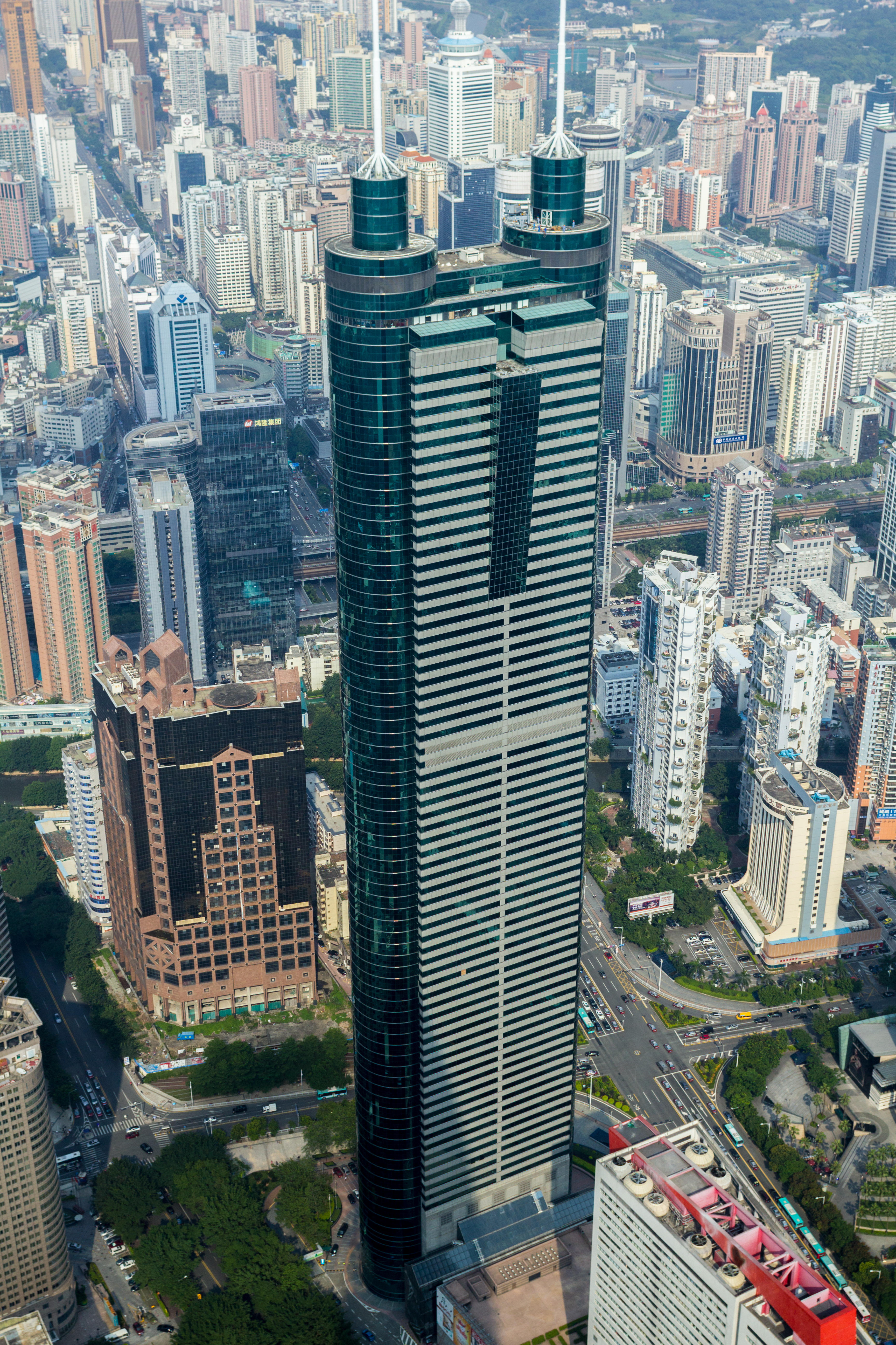 A view of the Shun Hing Square in Shenzhen, taken from the Kingkey 100 building.